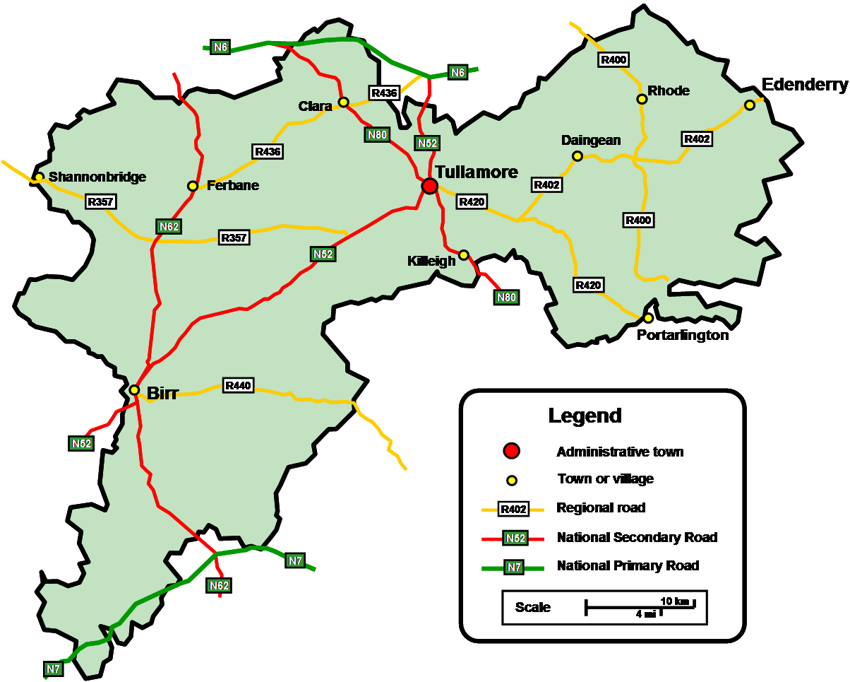 Road map of County Offaly, Ireland